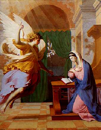 The Annunciation